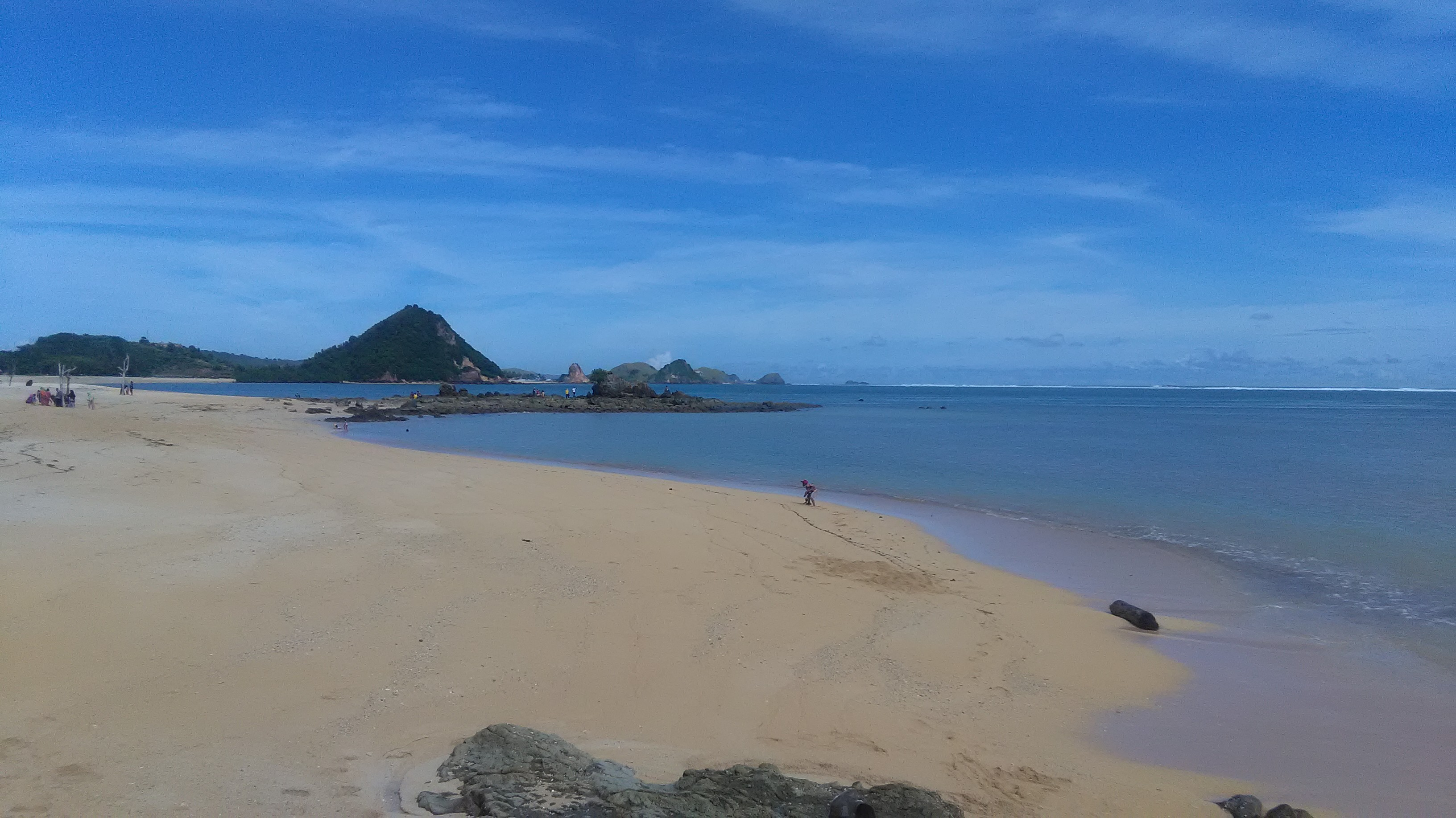 Kuta Beach, Lombok